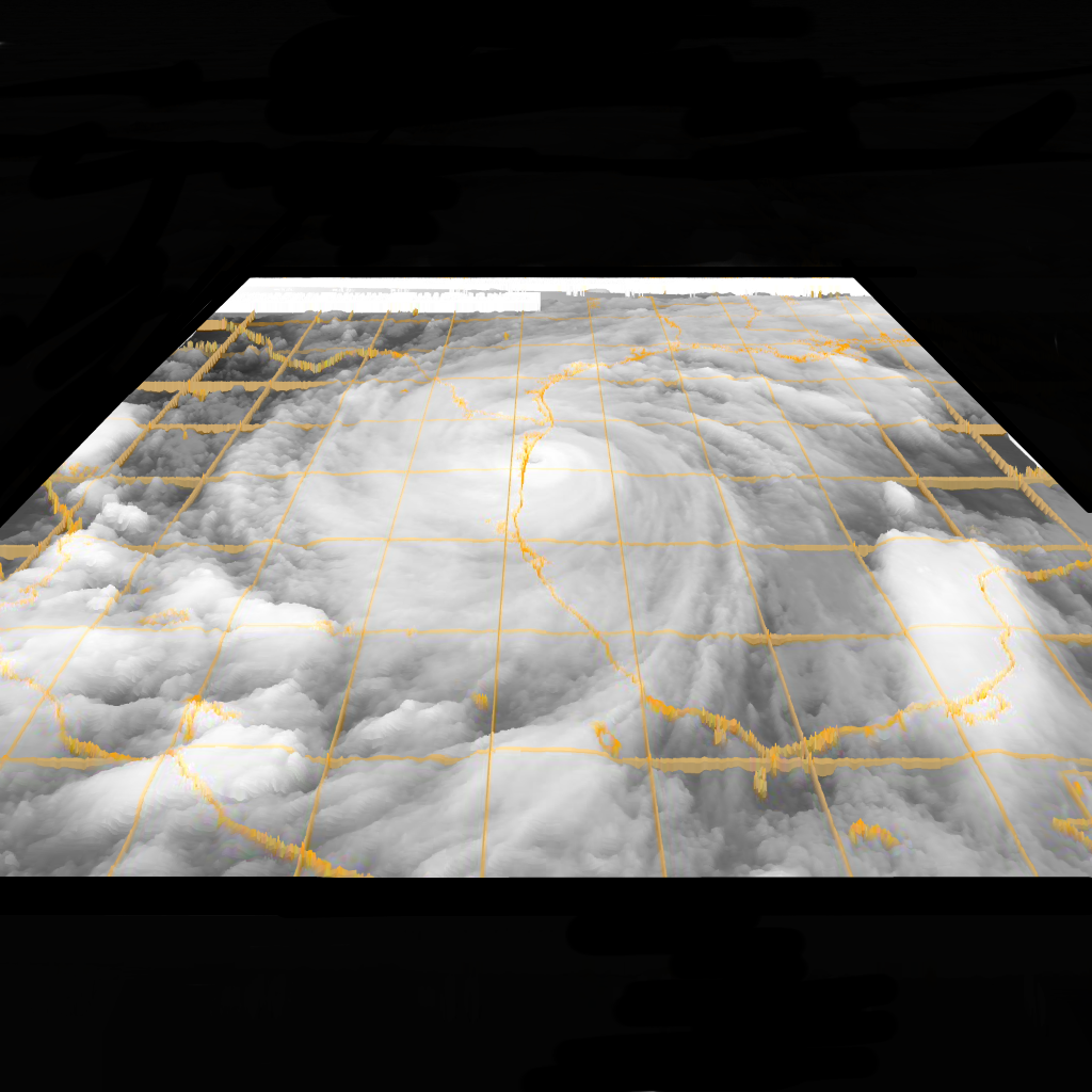 A 3D image that was created from an image at NRL